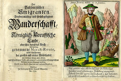 The exiled protestants from Salzburg, cover page with copper engraving from the book of Johann Heinrich Baum , Nuremberg, 1732; picture by Peter Conrad Monath